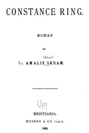 A picture of the book's title